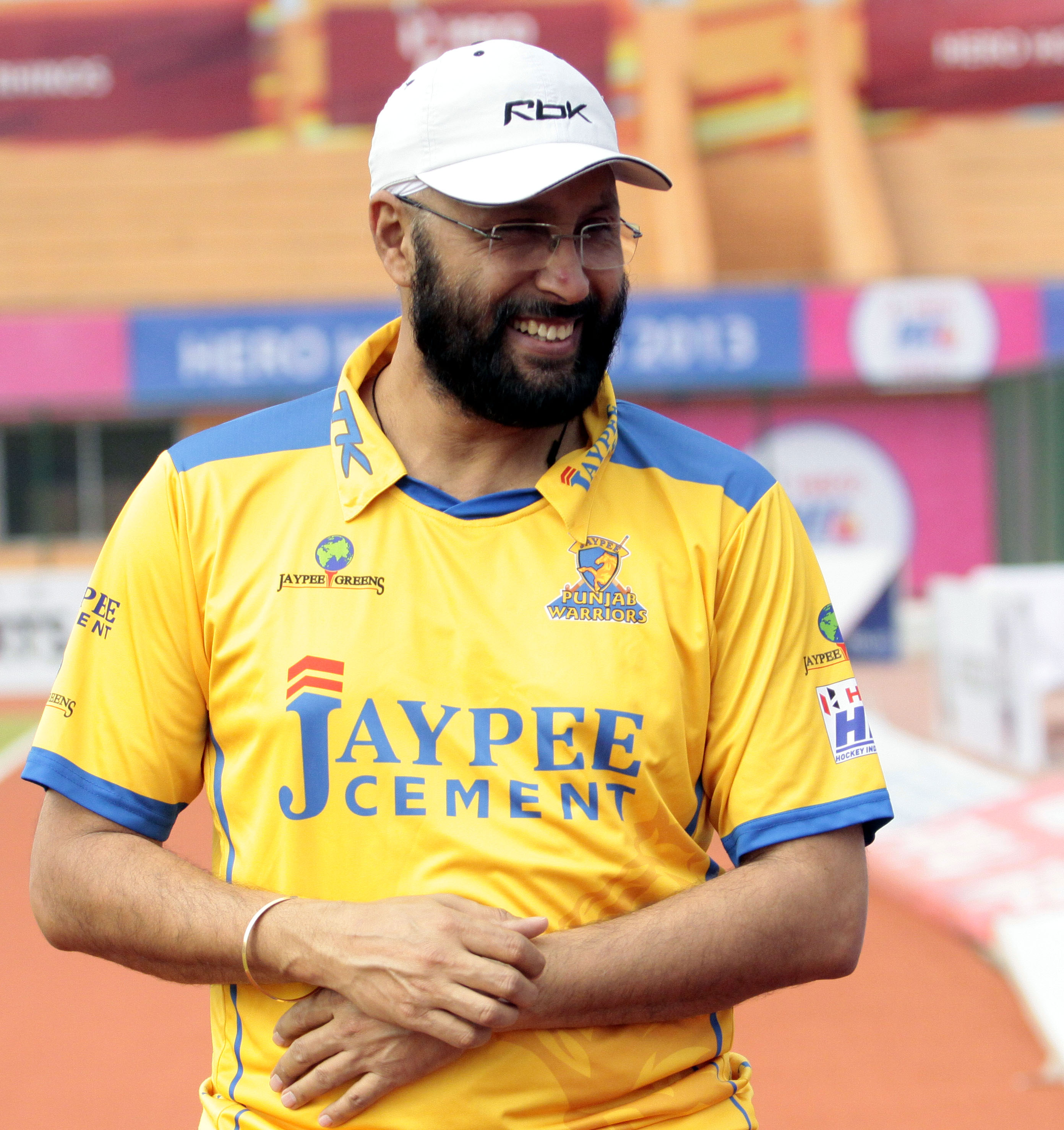 Coach with a watchful eye